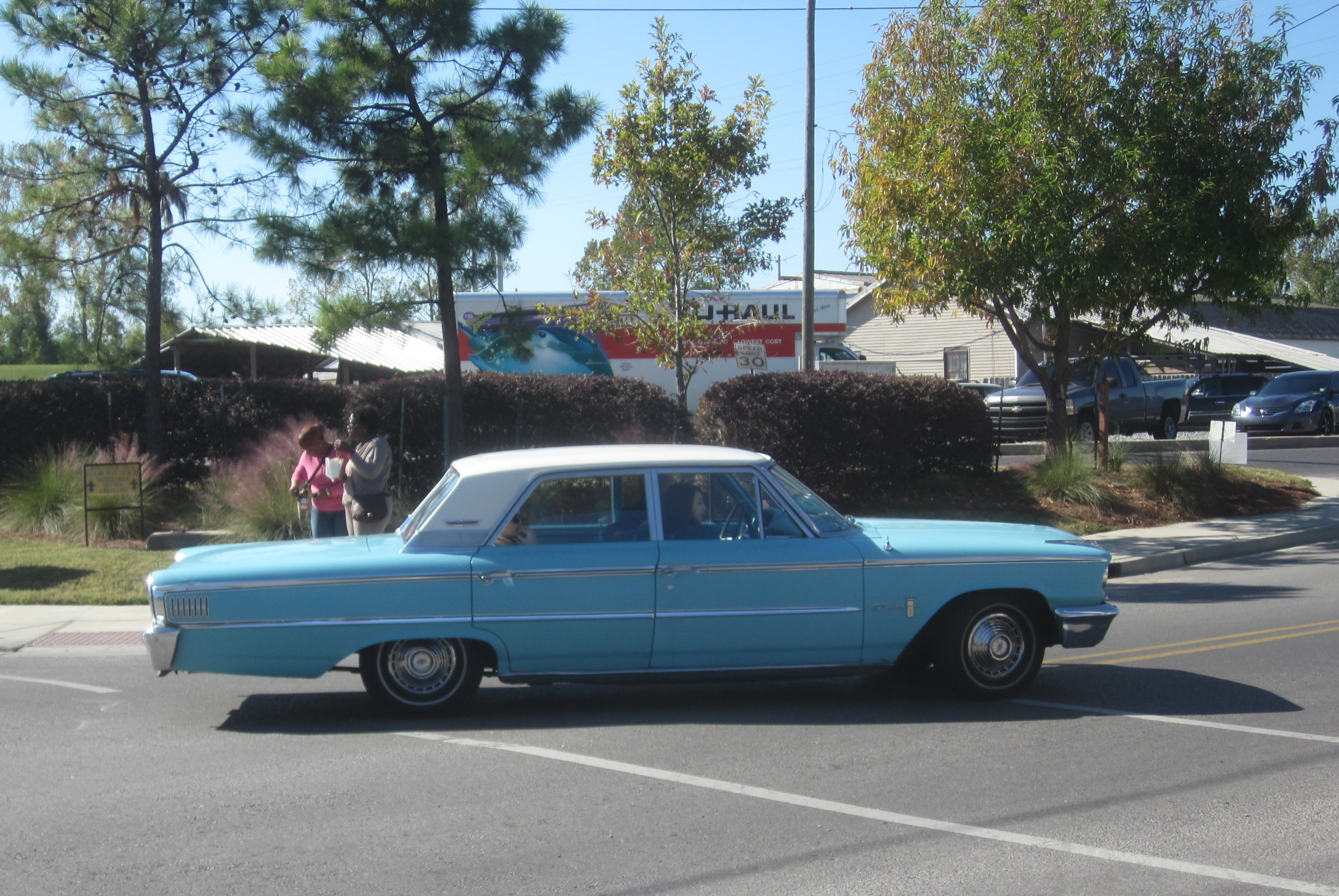 Oak Street at Eagle Street, Carrollton neighborhood, New Orleans 1960s Ford Galaxie